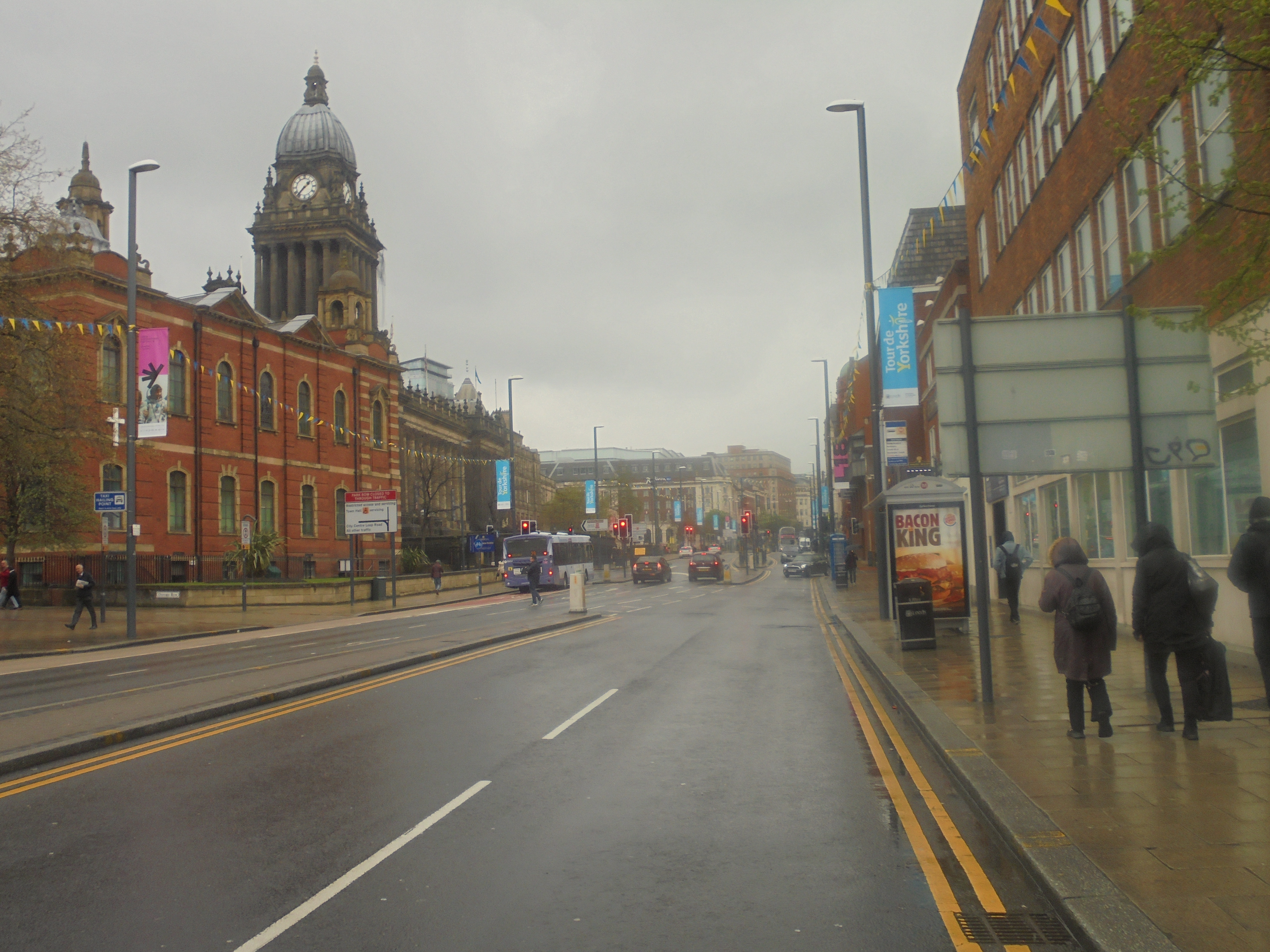 Headrow with Tour de Yorkshire decorations, Leeds, West Yorkshire. Taken on the afternoon of Friday the 27th April 2018.